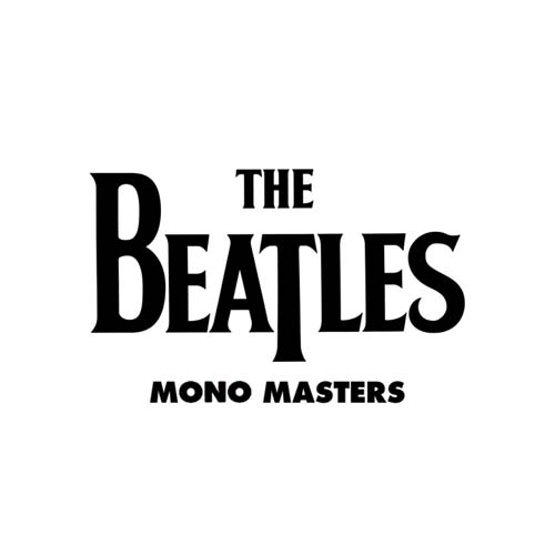 Album cover included in The Beatles in Mono: "Mono Masters" in September 2009